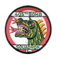 Emblem of the World War II 405th Bomb Squadron